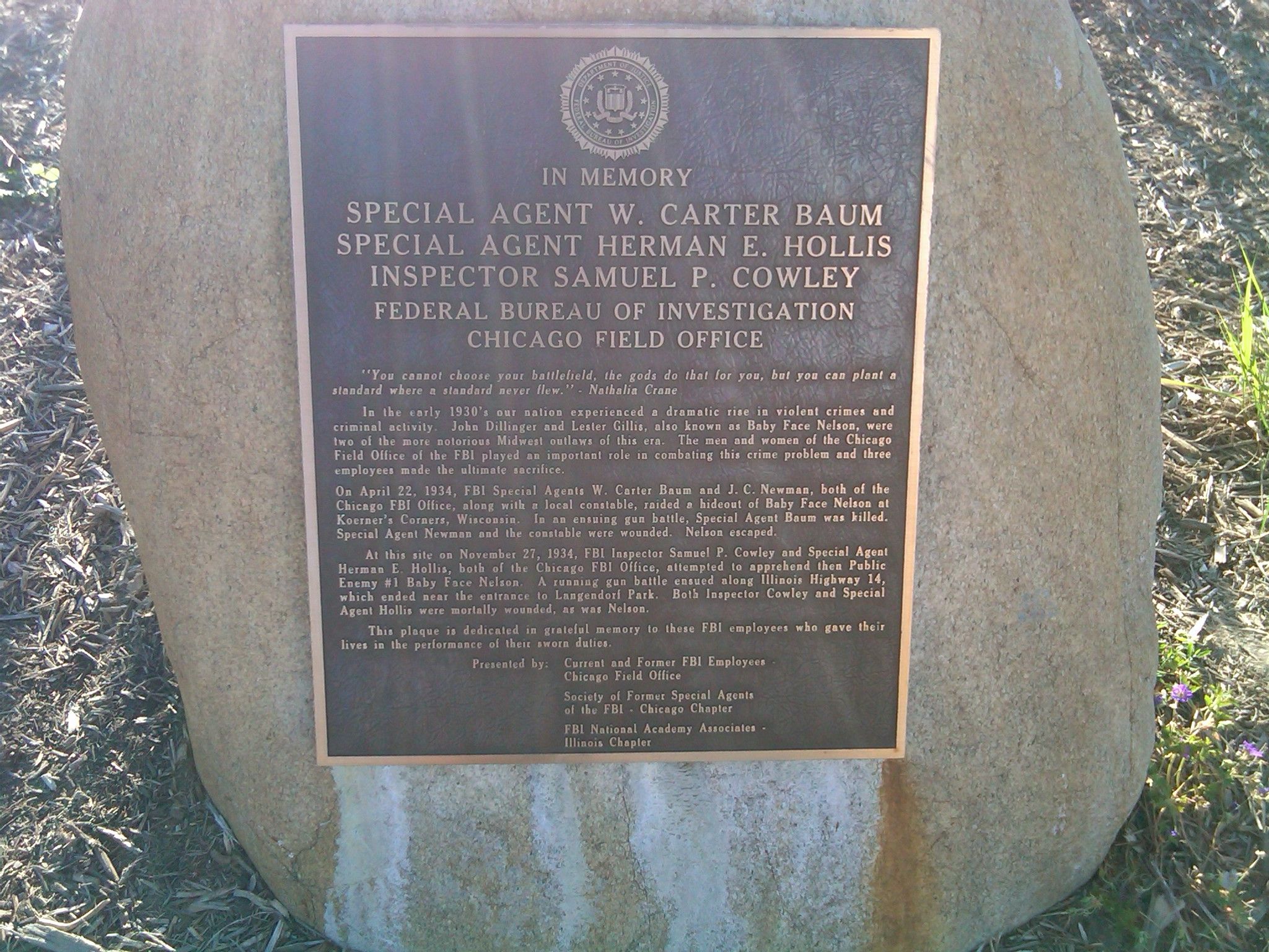 Photograph of plaque commemorating Battle of Barrington (shoot-out between Baby Face Nelson and FBI agents) at Barrington Park District in Barrington, Illinois.